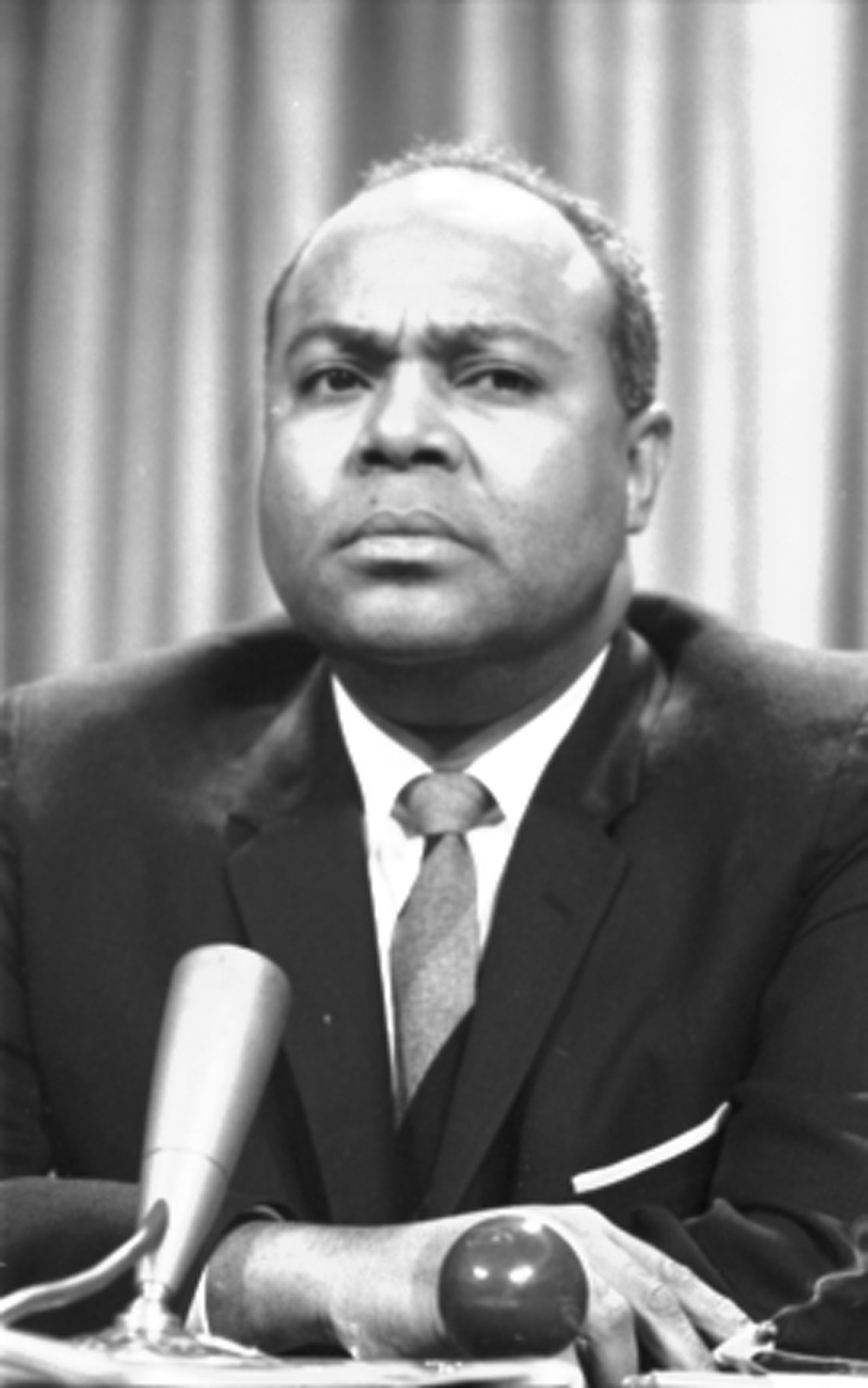 James L. Farmer, Jr. at a meeting of American Society of Newspaper Editors